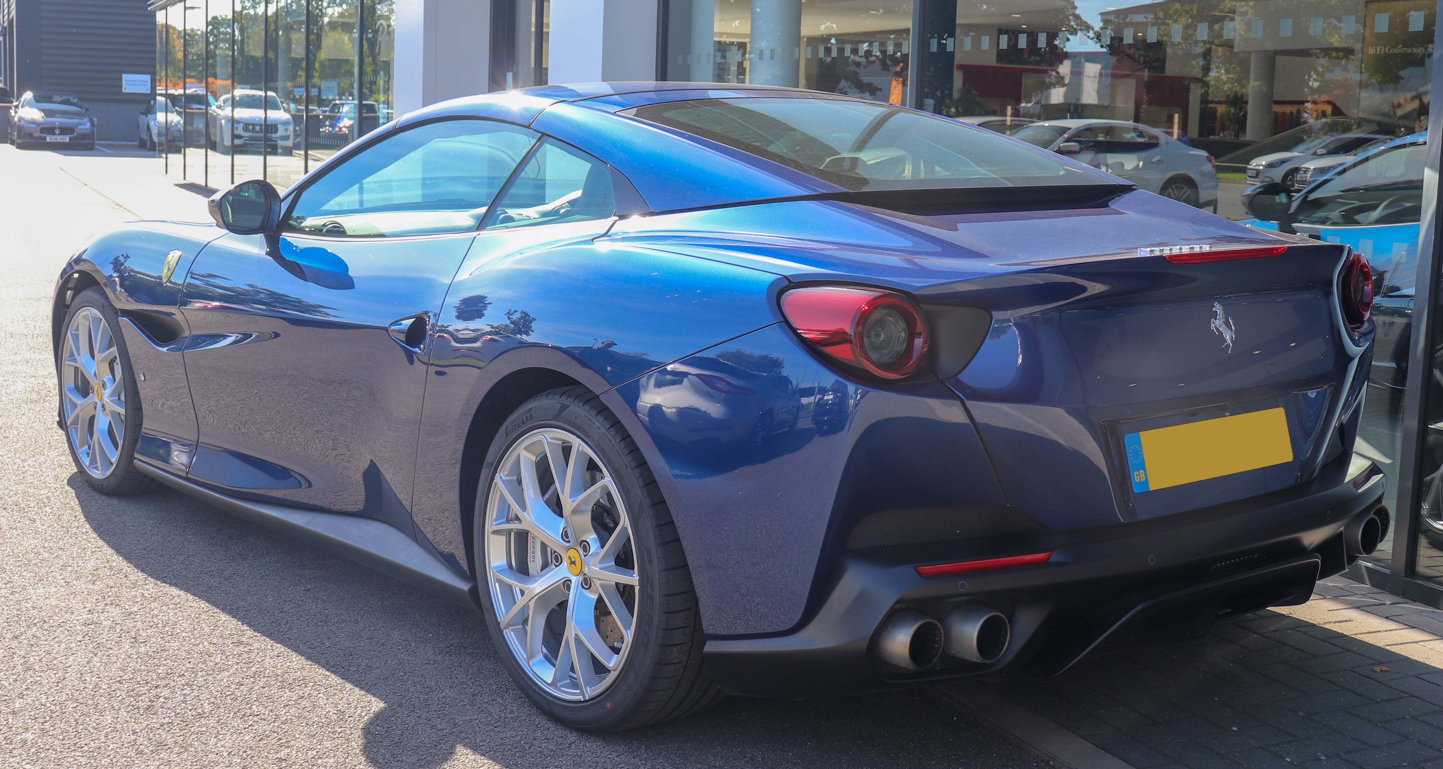 2018 Ferrari Portofino S-A 3.9 Rear Taken in Solihull